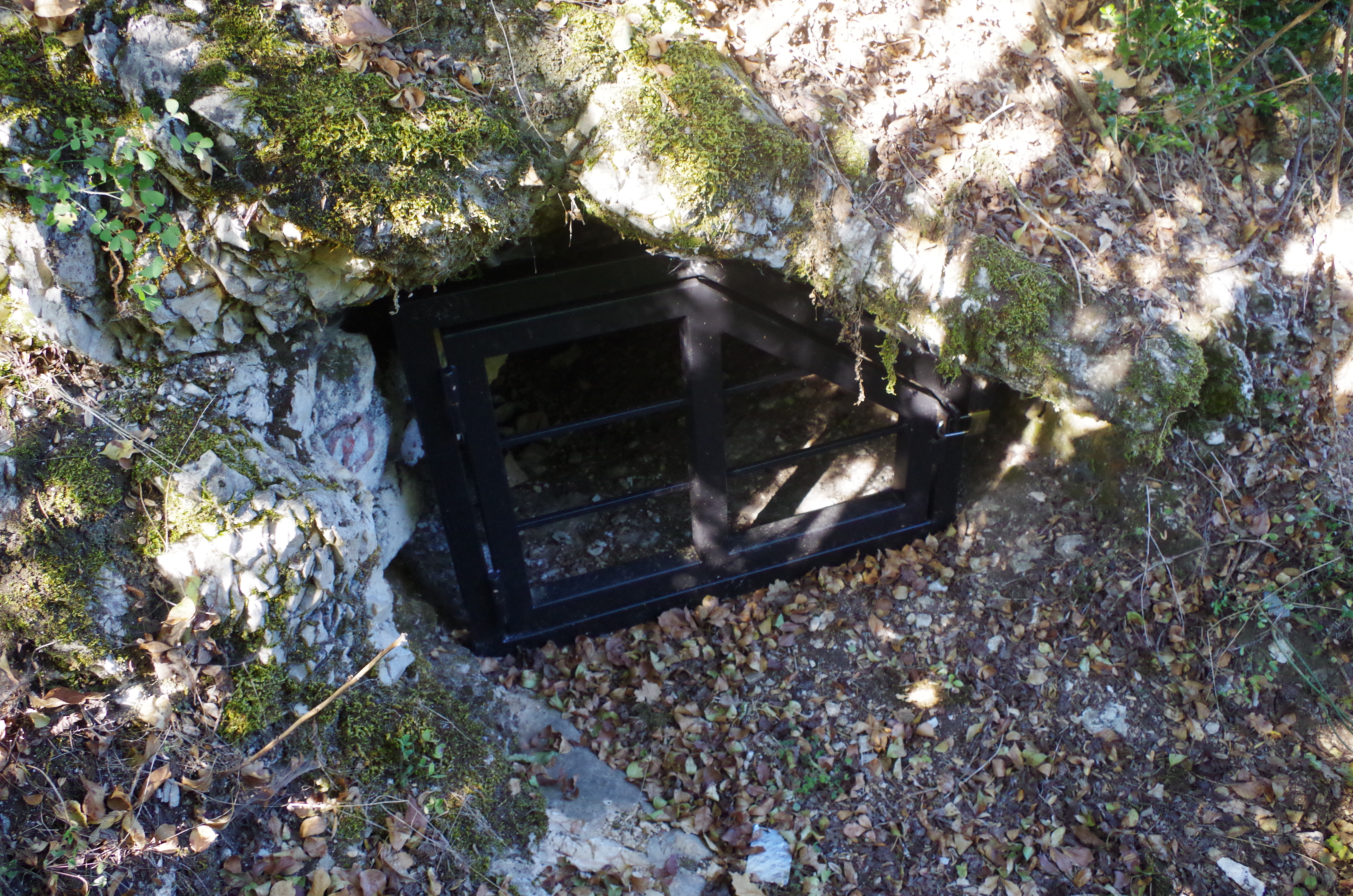 Puralo cave in the village of Slatina in Porece region, Macedonia